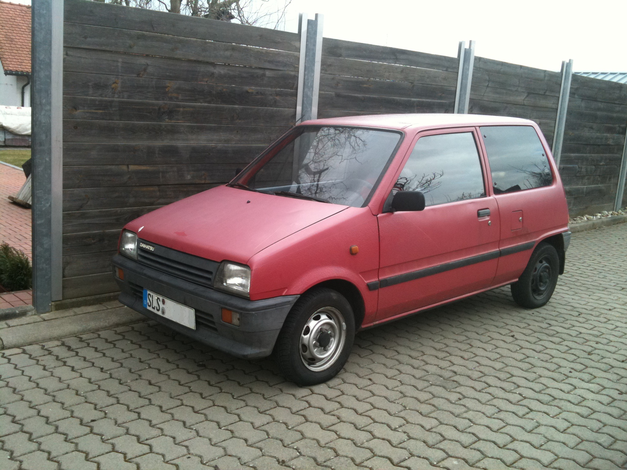 Daihatsu Cuore L80